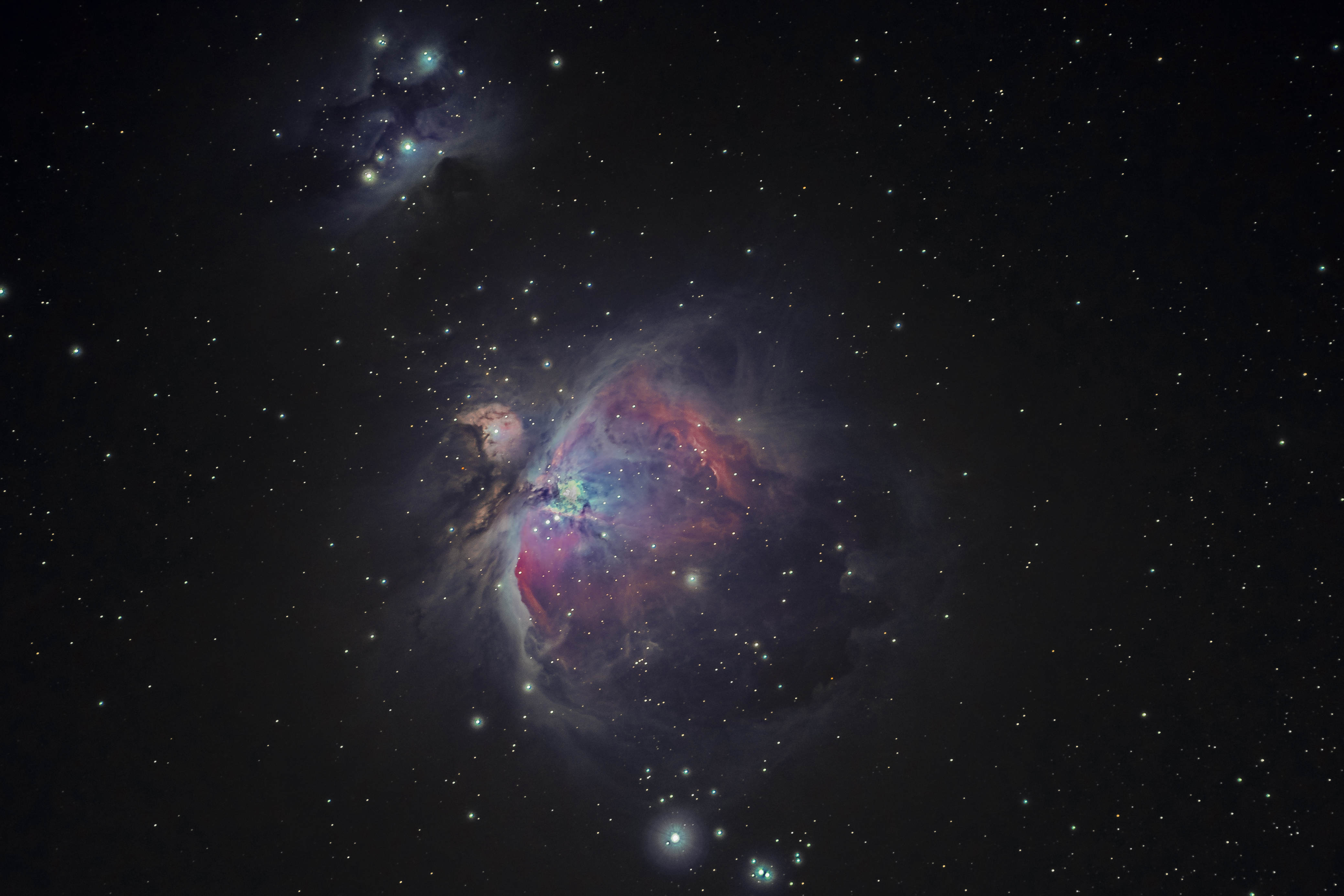 The Orion Nebula taken from a backyard in Petaluma, California.